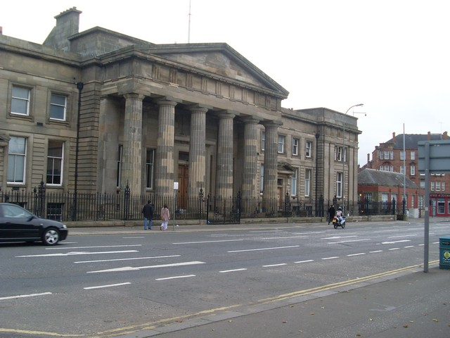 The High Court of Glasgow The main building of the High Court, opposite Glasgow Green.